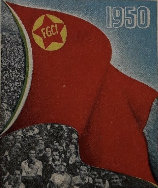 Membership card of the FGCI, 1950